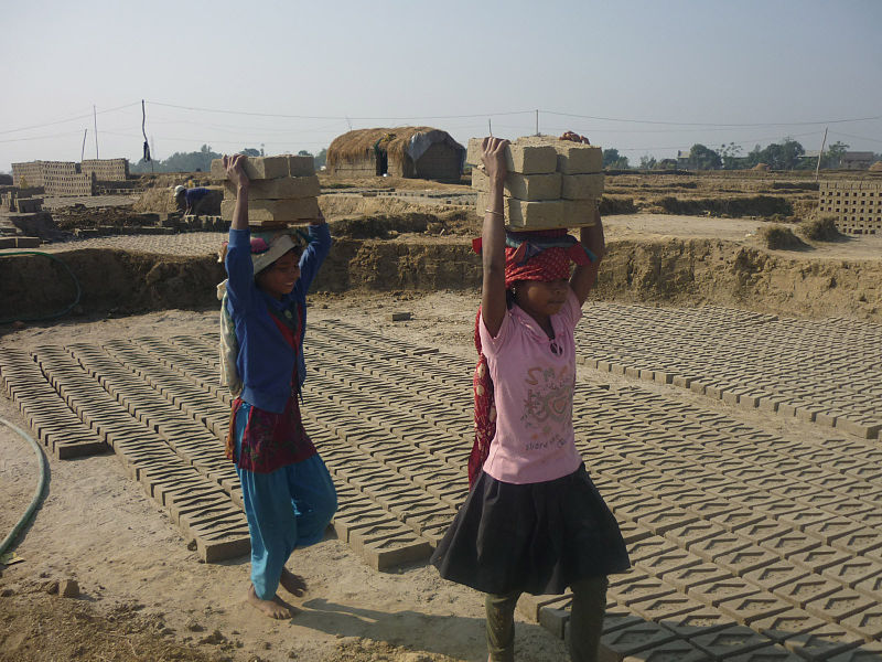 Girls working in a brick factory. नेपाली: ईंट कारखानामा काम गरिरहेका बालिकाहरू